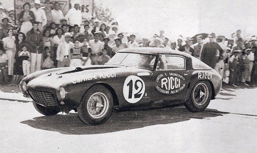 Ferrari 375 MM at the 1953 Carrera Panamericana, Nov. 19 to 23, 1953. This is chassis #0358AM, drivers were Umberto Maglioli and Nino Cassini. Did not finish race due to tyre falling off.[1]